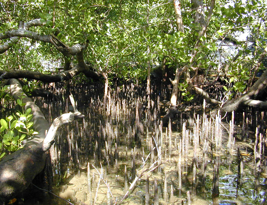 Mangrove (Sonneratia ?alba) trees and pneumatophores on the coast of Yap. Photograph by Eric Guinther taken May 2002 and released under the GNU Free Documentation License.